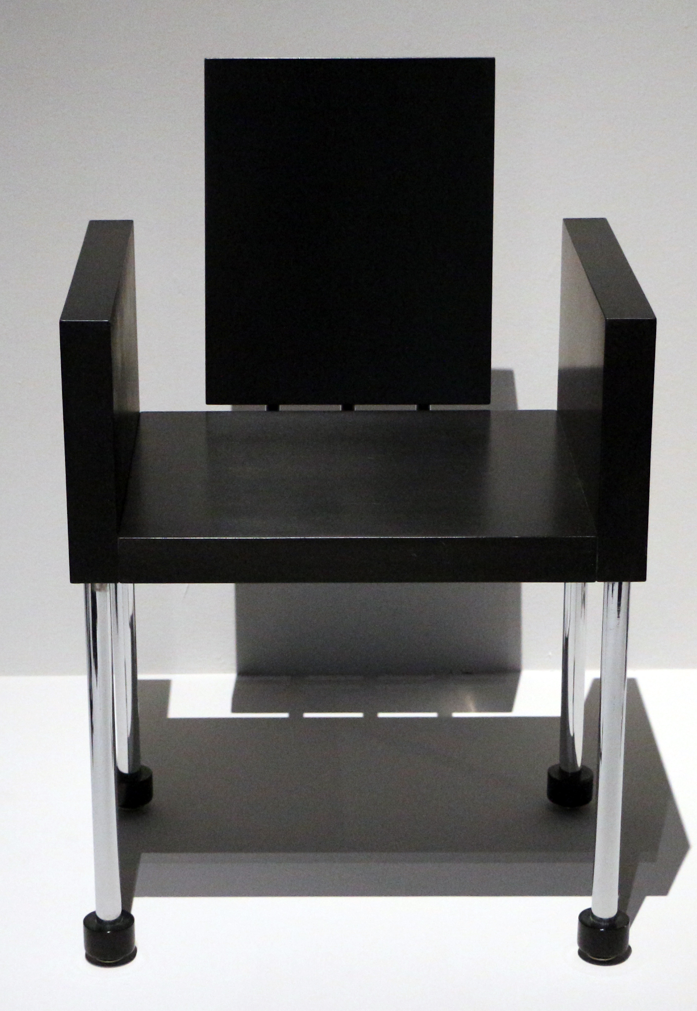 Decorative arts in the Musée national d'art moderne